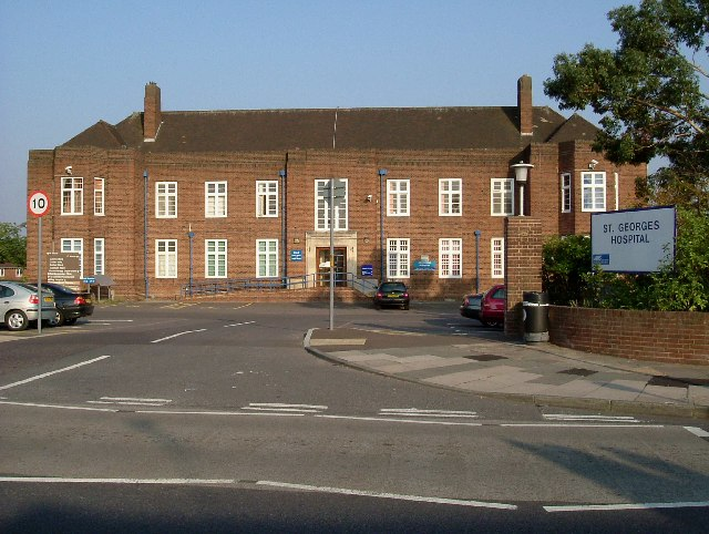 St George's Hospital. St George's is now part of Havering Hospitals NHS Trust which was established in 1993. The North East London Strategic Health Authority is considering closing the hospital. The property developers must be drooling at the prospect of a brown-field site surrounded on two sides by countryside!